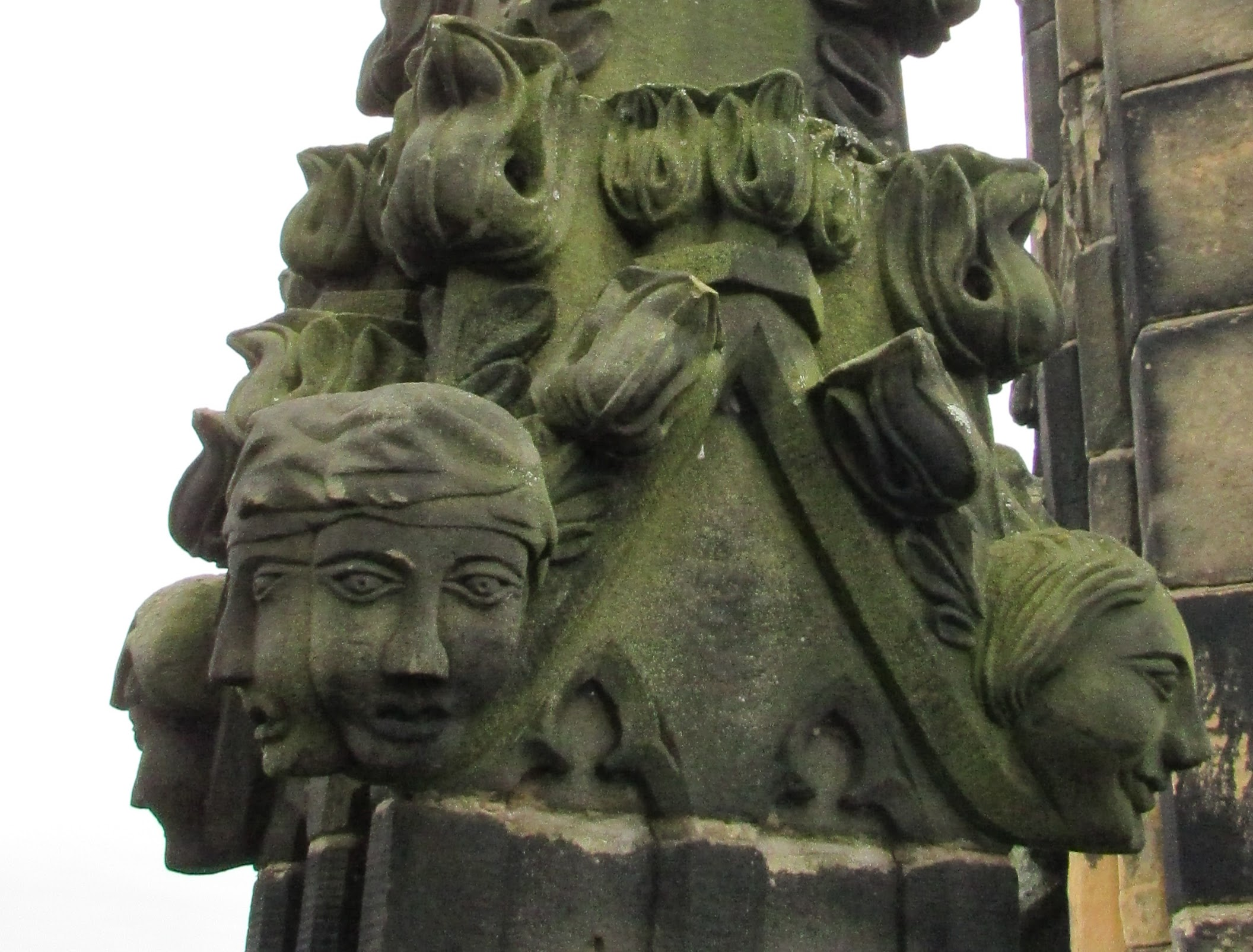 St Giles' Church tower grotesques, Wrexham